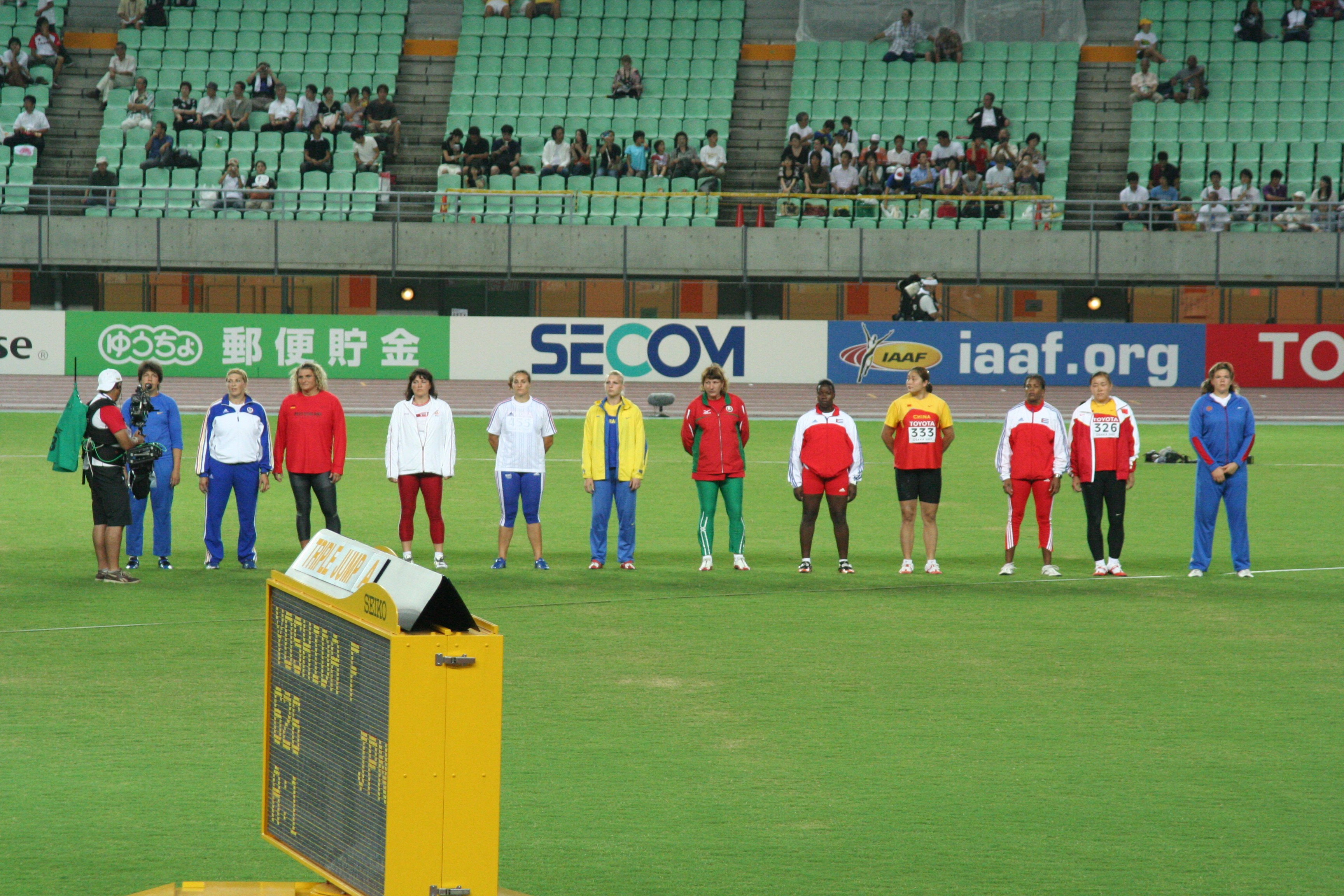 World Athletics Championships 2007 in Osaka - the participants in the women's discus throwing final: Olena Antonova, Nicoleta Grasu, Franka Dietzsch, Joanna Wisniewska, Mélina Robert-Michon, Natalya Fokina-Semenova, Iryna Yatchenko, Yarelis Barrios, Taifeng Sun, Yania Ferrales, Xuejun Ma, Darya Pishchalnikova